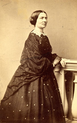 Portrait photograph of Norwegian painter and feminist Aasta Hansteen, 1863